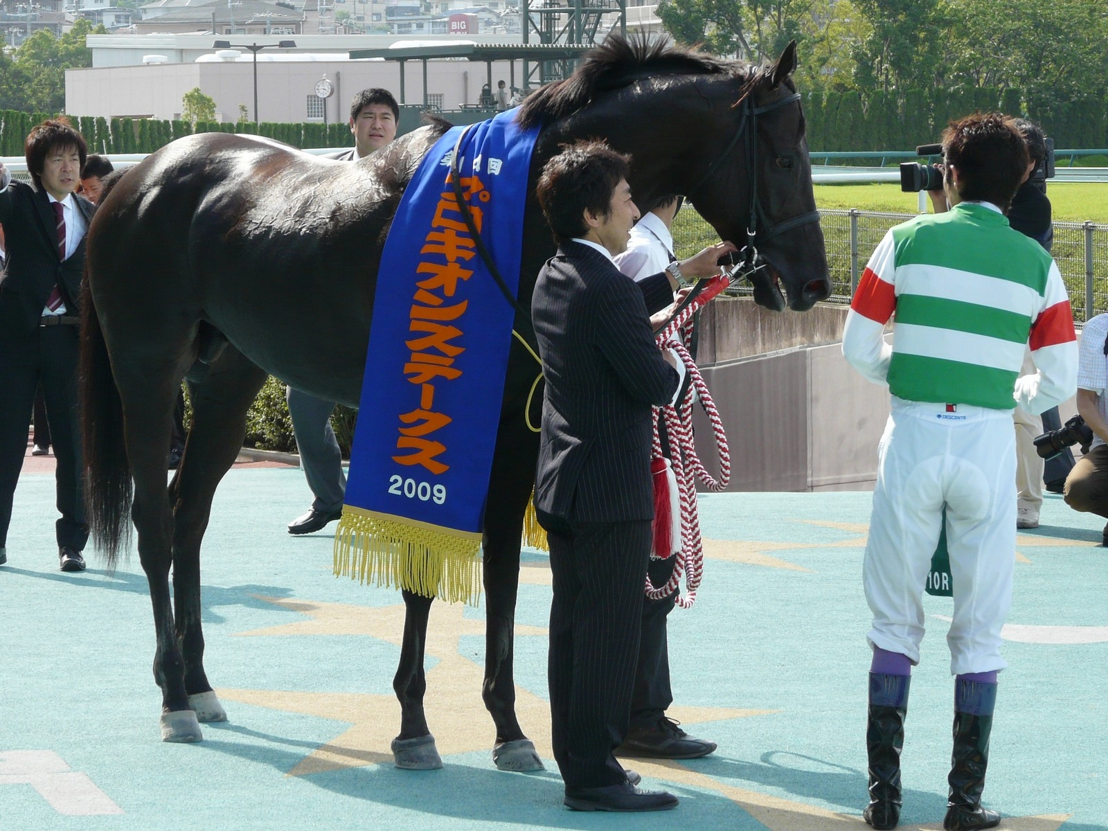 Lanzarote20090712